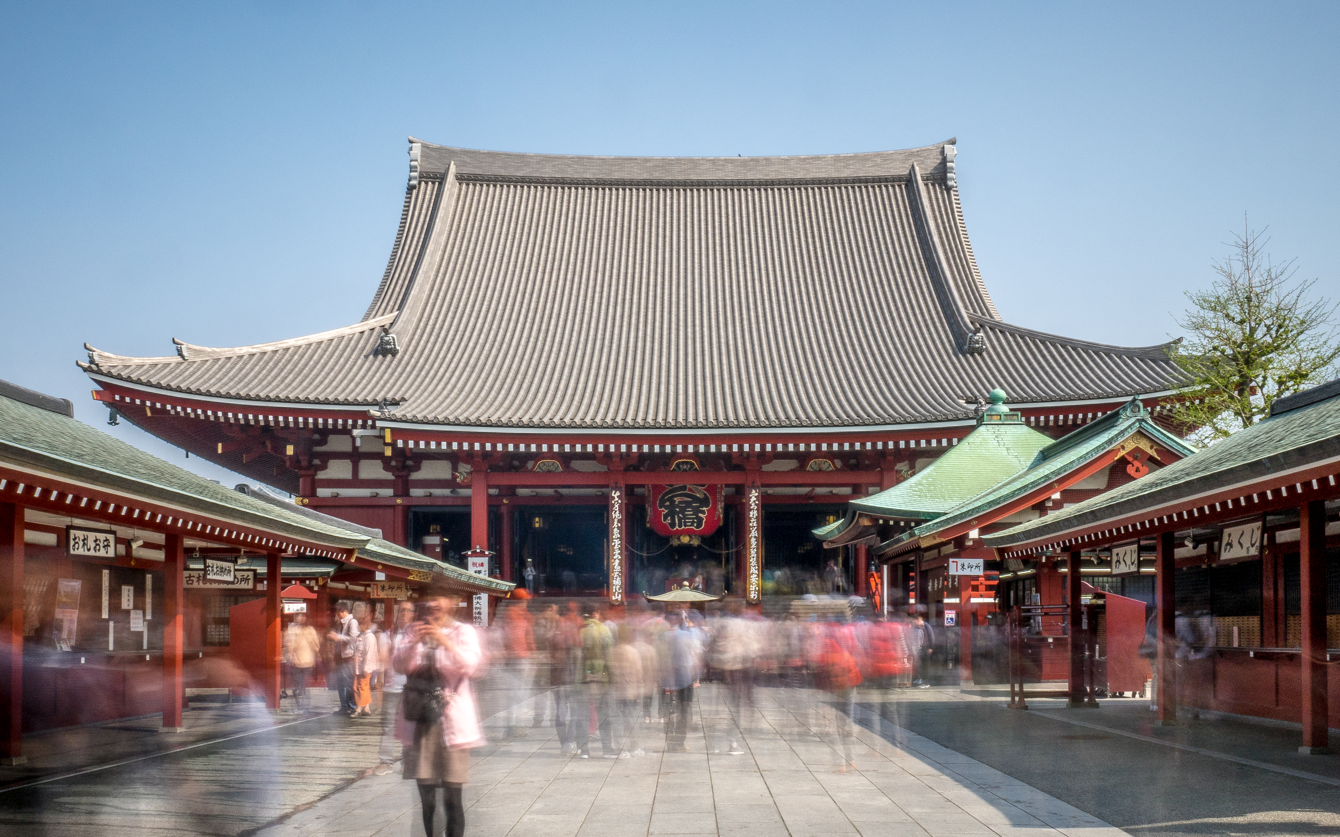 Long Exposure in the Morning of the Temple